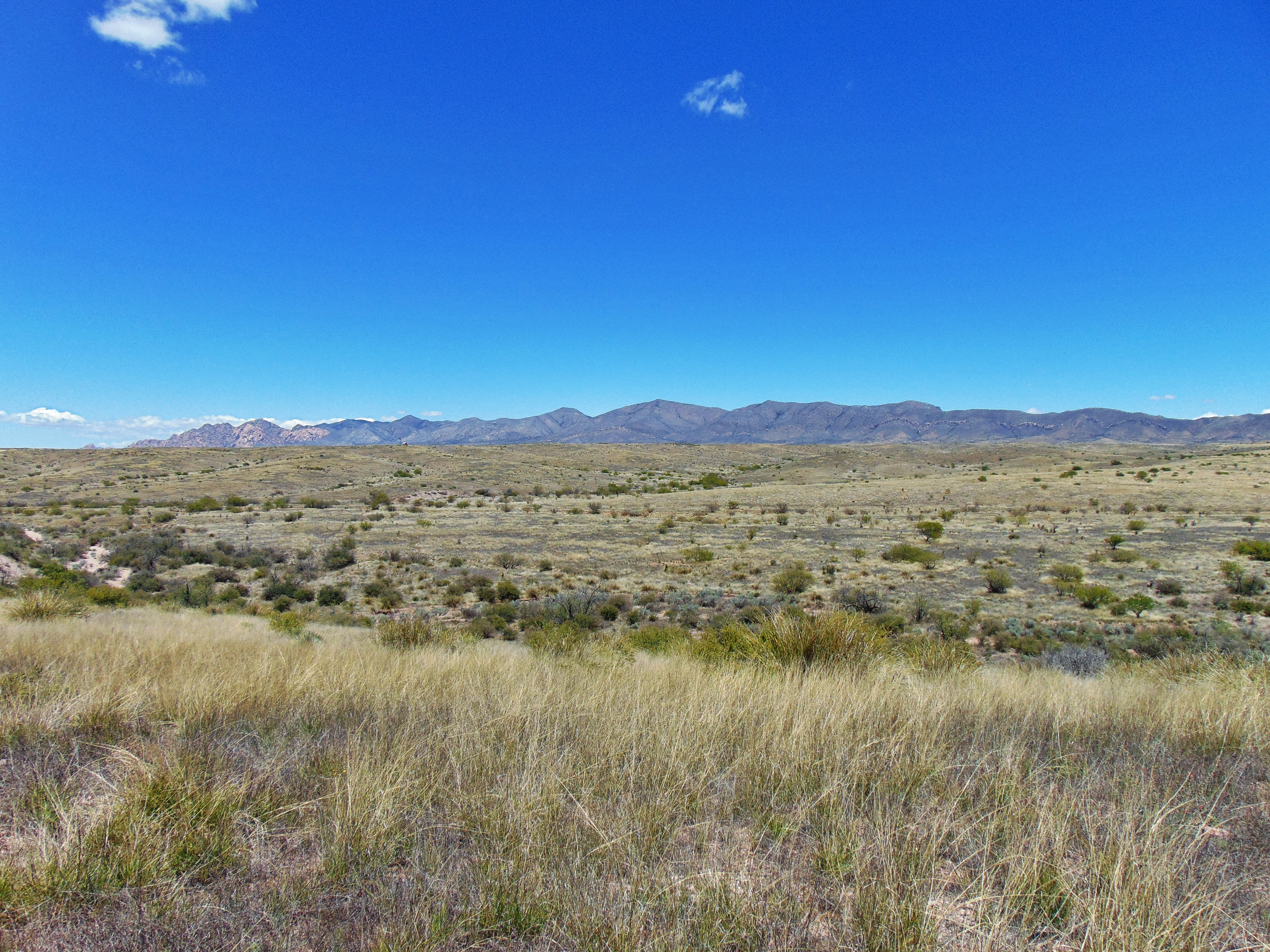 Prairie along Gleeson Road, in the San Pedro Valley near Tombstone, Arizona. The Dragoon Mountains are in the background.